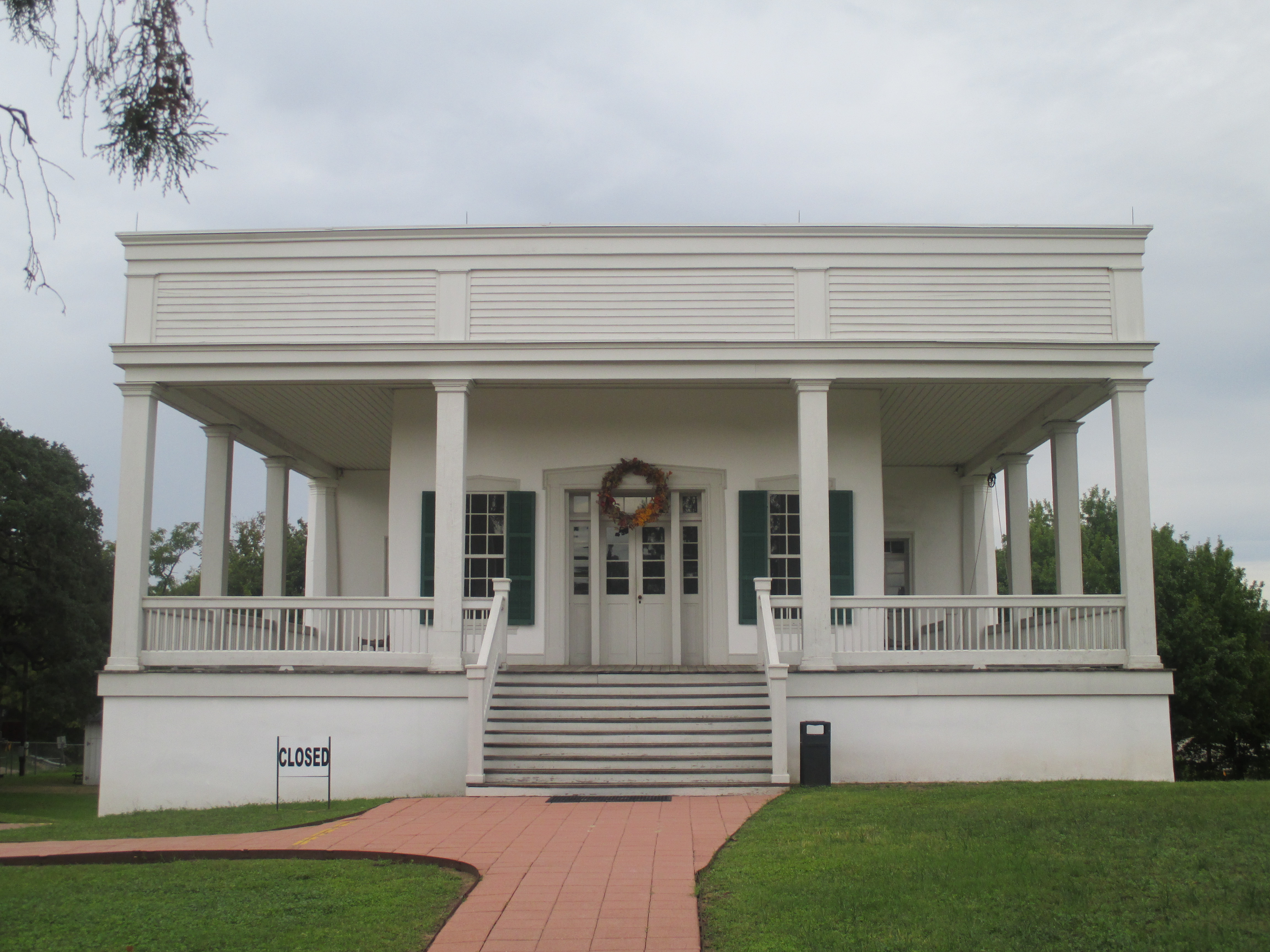 I took photo of Sebastopol House Historic Site in Seguin, TX, with Canon camera.